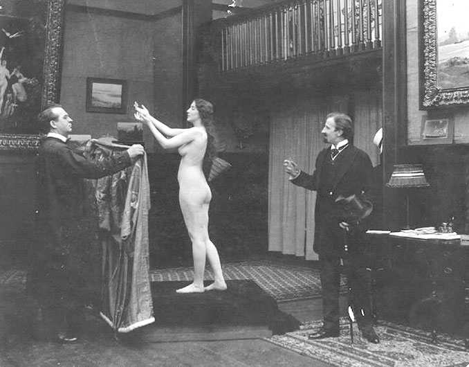 Actress Audrey Munson (center) in role as artist's model in the 1915 film Inspiration. Other cast in the film are Thomas A. Curran (left) as The Artist, and George Marlo and Bert Delaney as The Artist's Friends.